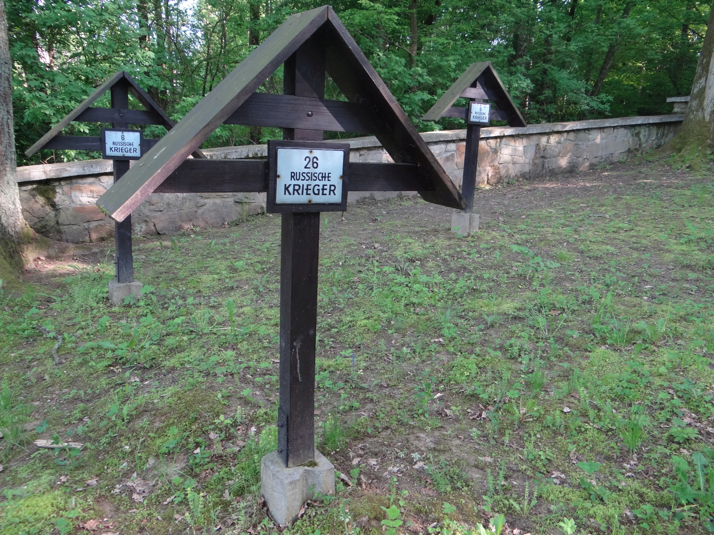 World War I Cemetery nr 30 in Święcany